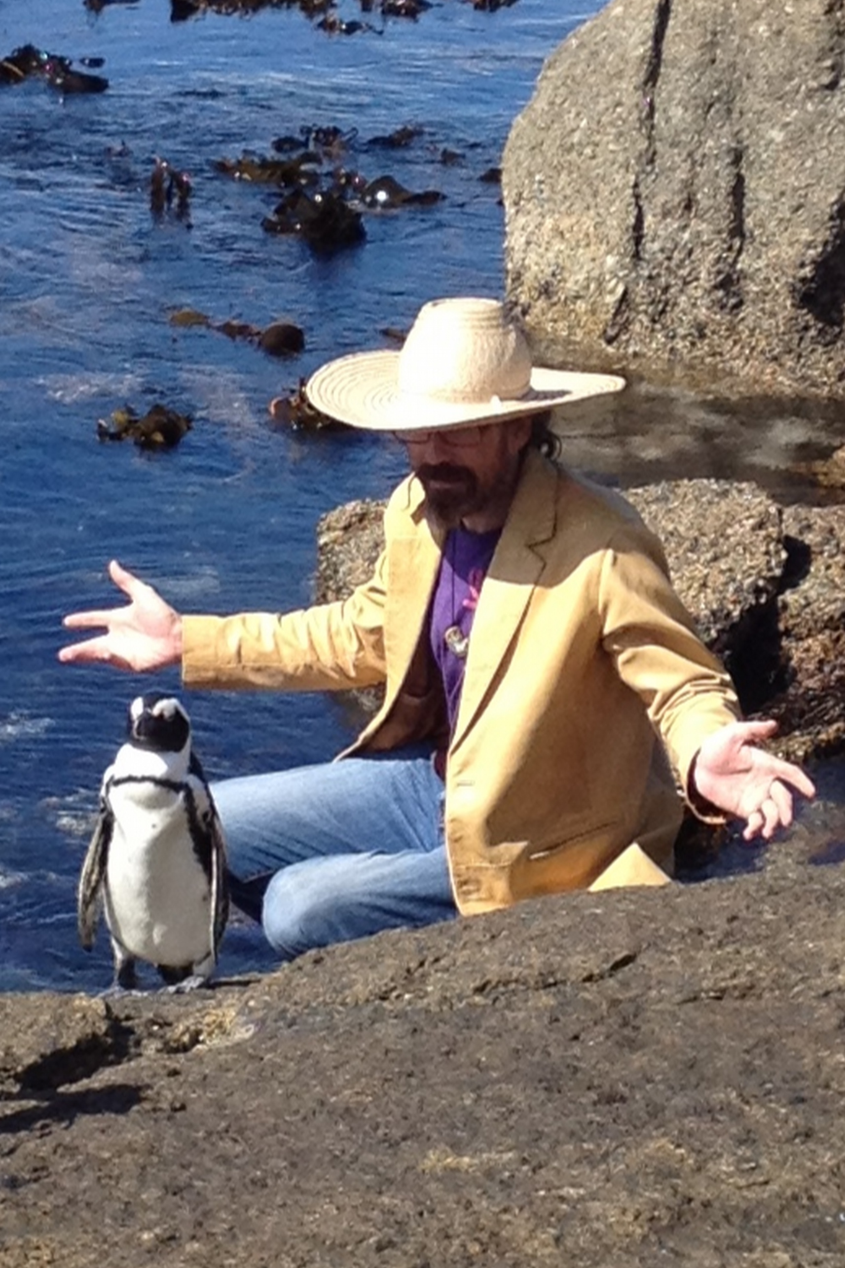 John Bauer with a penguin on Boulders Beach, Simonstown, South Africa.